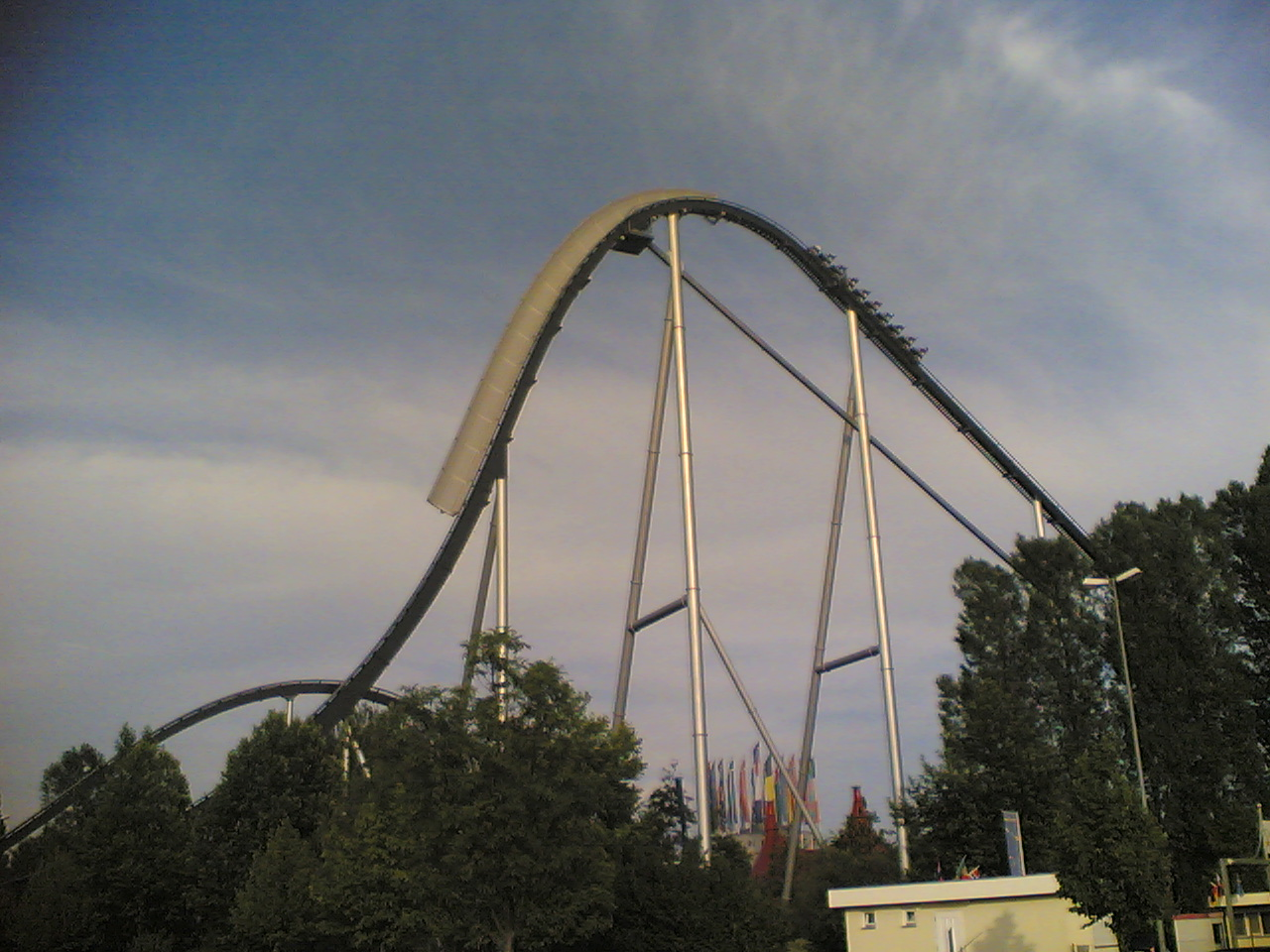 First Drop of the "Silver Star" (Roller coaster in Europa-Park Germany)